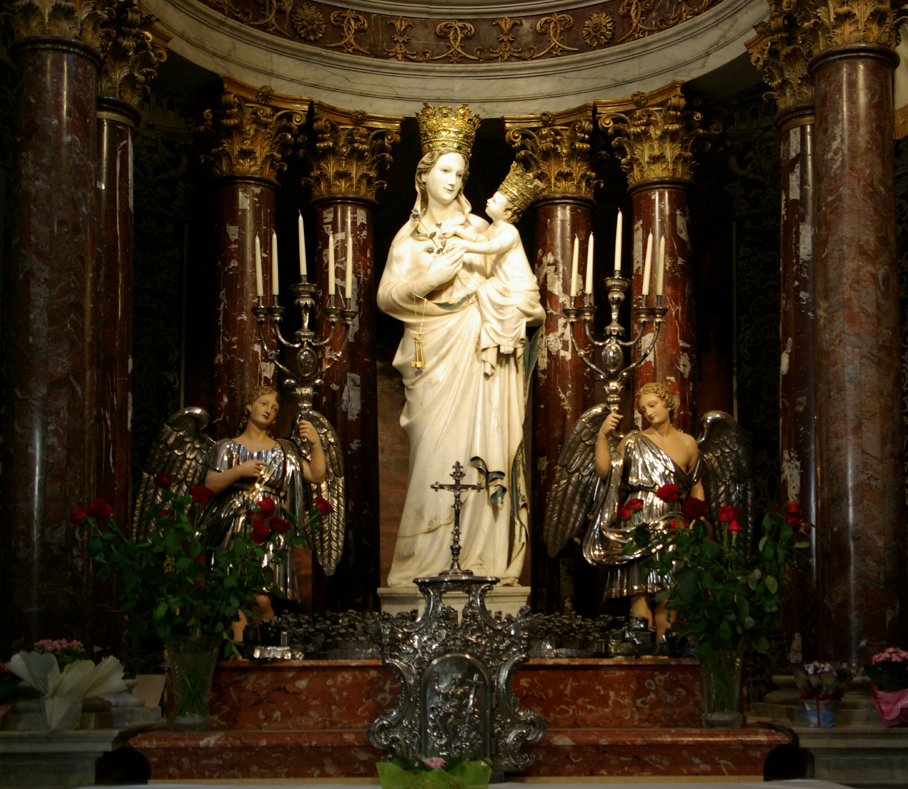 Italy, Sicily, Trapani, Basilica sanctuary of Maria Santissima Annunziata, statue of Our Lady of Trapani